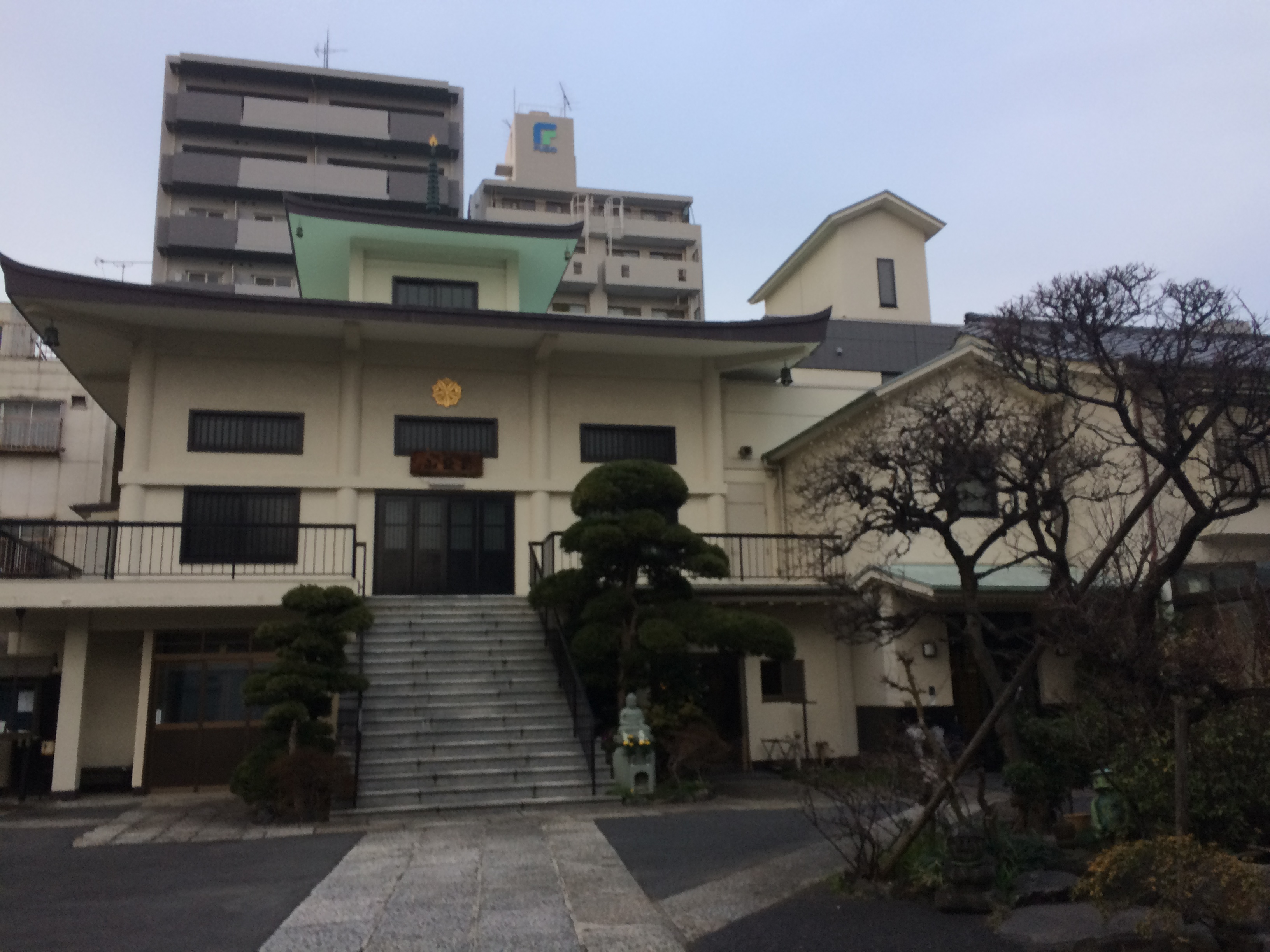 Kappa-dera Temple viewed from shrine steps